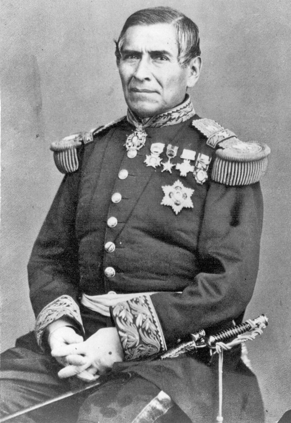 A half-length portrait (seated, facing front) of Juan Nepomuceno Almonte, a Mexican general, politician and diplomat.